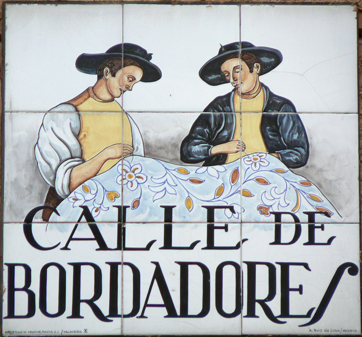 Sign of Calle de Bordadores (street, Centro district) in Madrid (Spain).